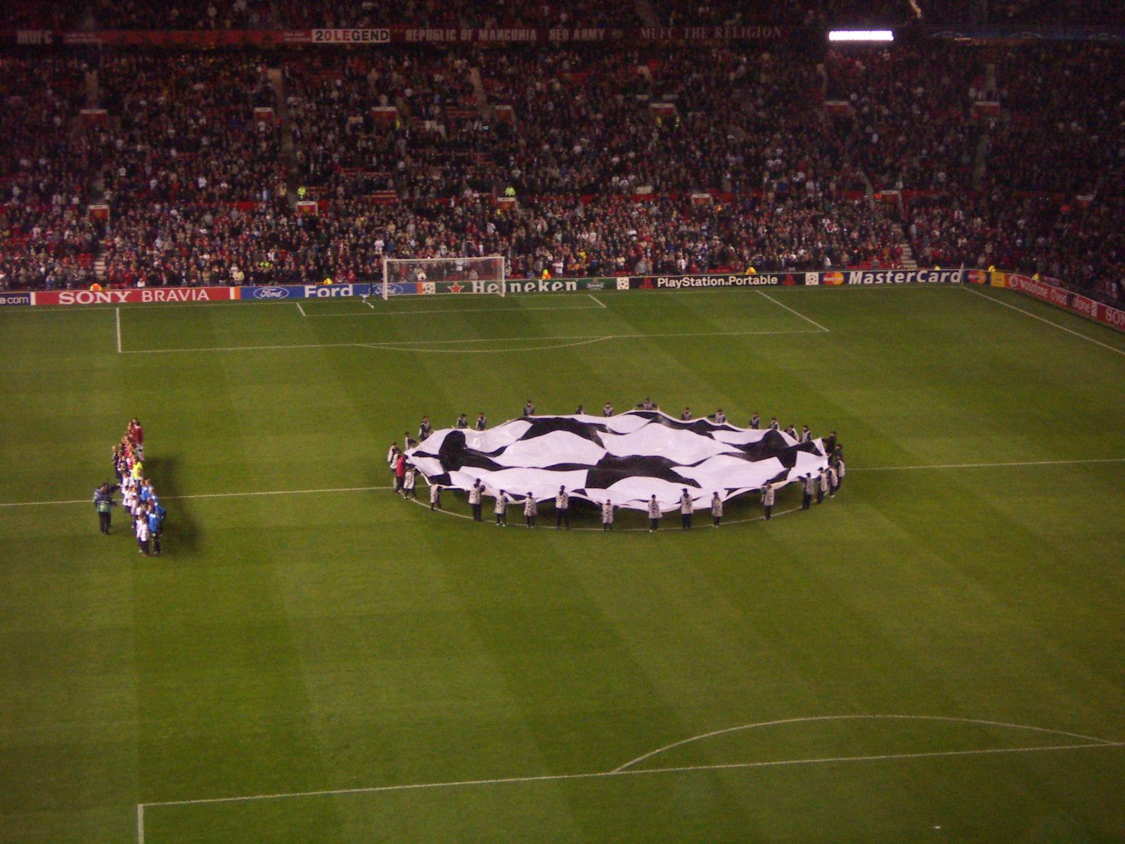 Manchester United - F.C. Copenhagen 17. October, 2006 during the playing of the Champions League Hymne before the actual match as seen from the position of the F.C. Copenhagen's fan's corner of Old Trafford.